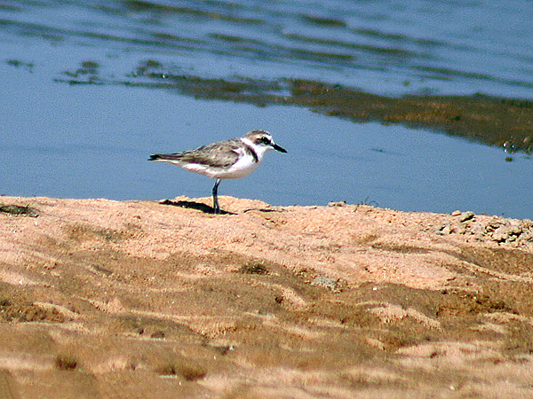 Kentish Plover Charadrius alexandrinus in Chilika, Orissa, India.